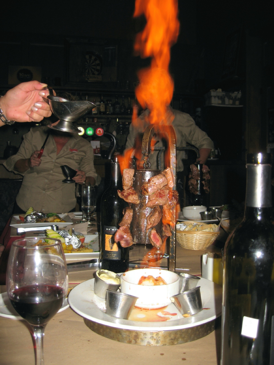 Potence (mixed grill of Elk, Venison, Cariboo) at Sagamite Restaurant, Wendake,Quebec,Canada